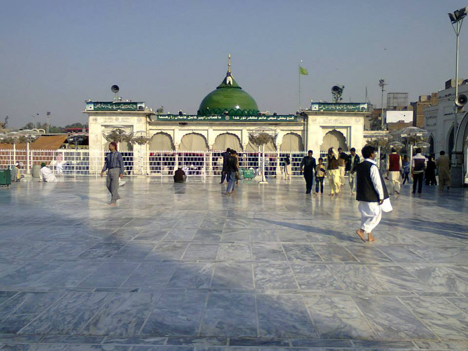 Data Durbar Complex This is a photo of a monument in Pakistan identified as the PB-P-105